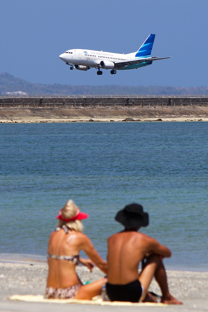 Final to runway 09 as GA266 arriving from Palembang PLM. Boeing 737-500 Garuda Indonesia